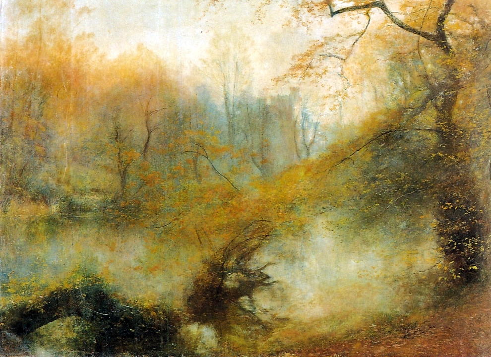 Enchanted Castle